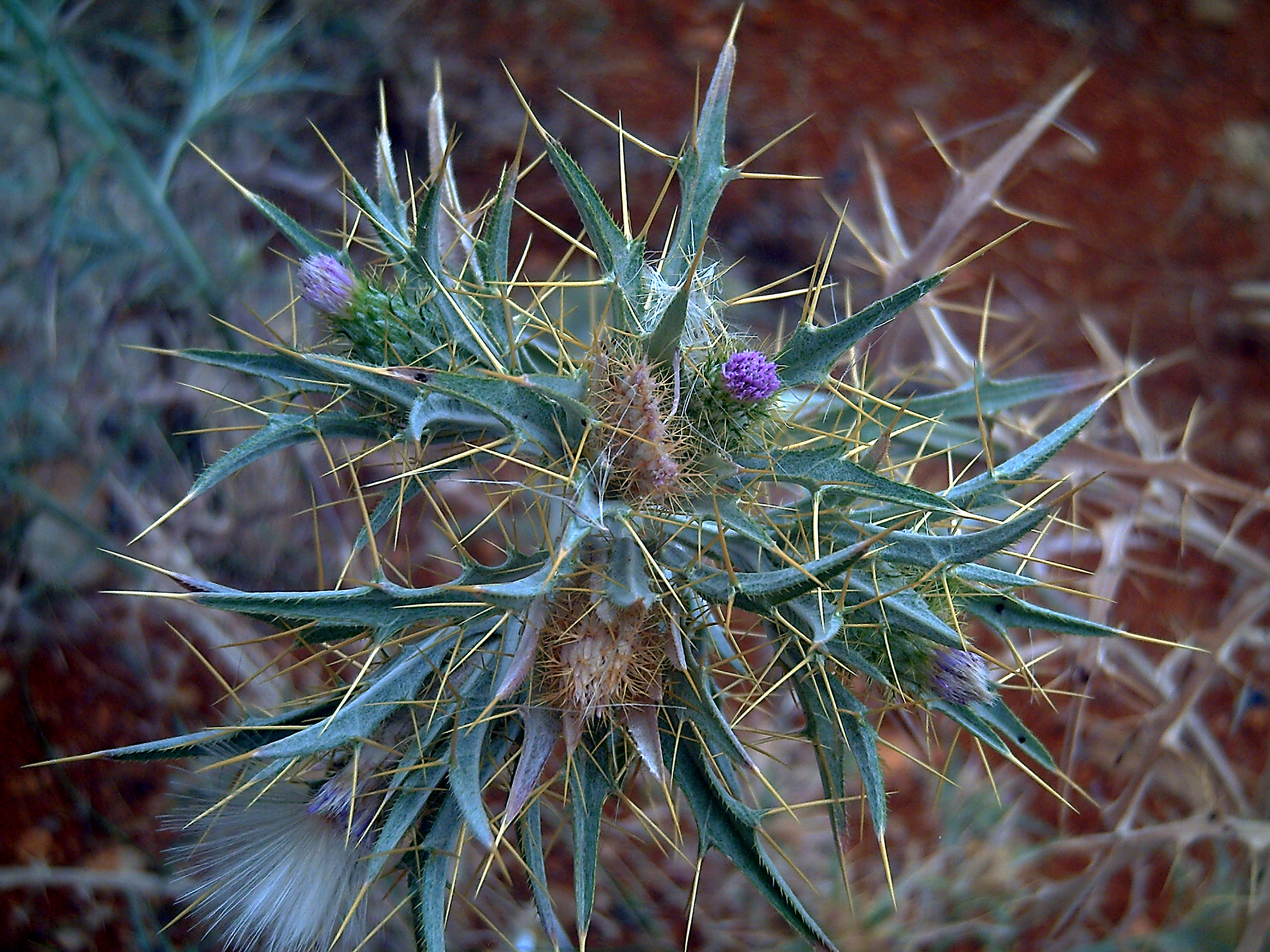 Picnomon acarna seeds and flowers close up Campo de Calatrava, Spain